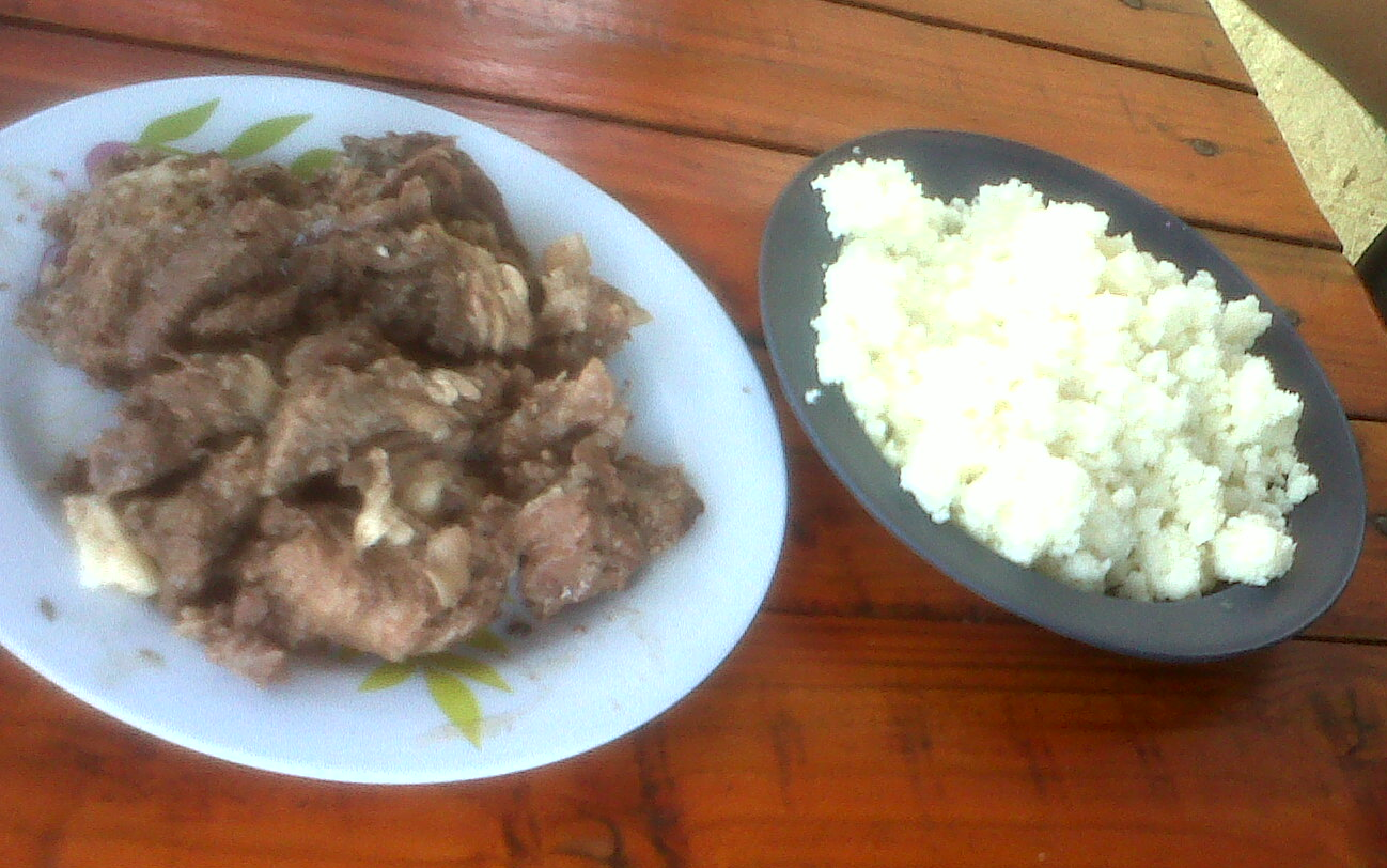 This is (in Zulu language) Uphuthu [mealie meal porridge] and in (Zulu language) skop [Cow Head Meat] This is an image of food from South Africa